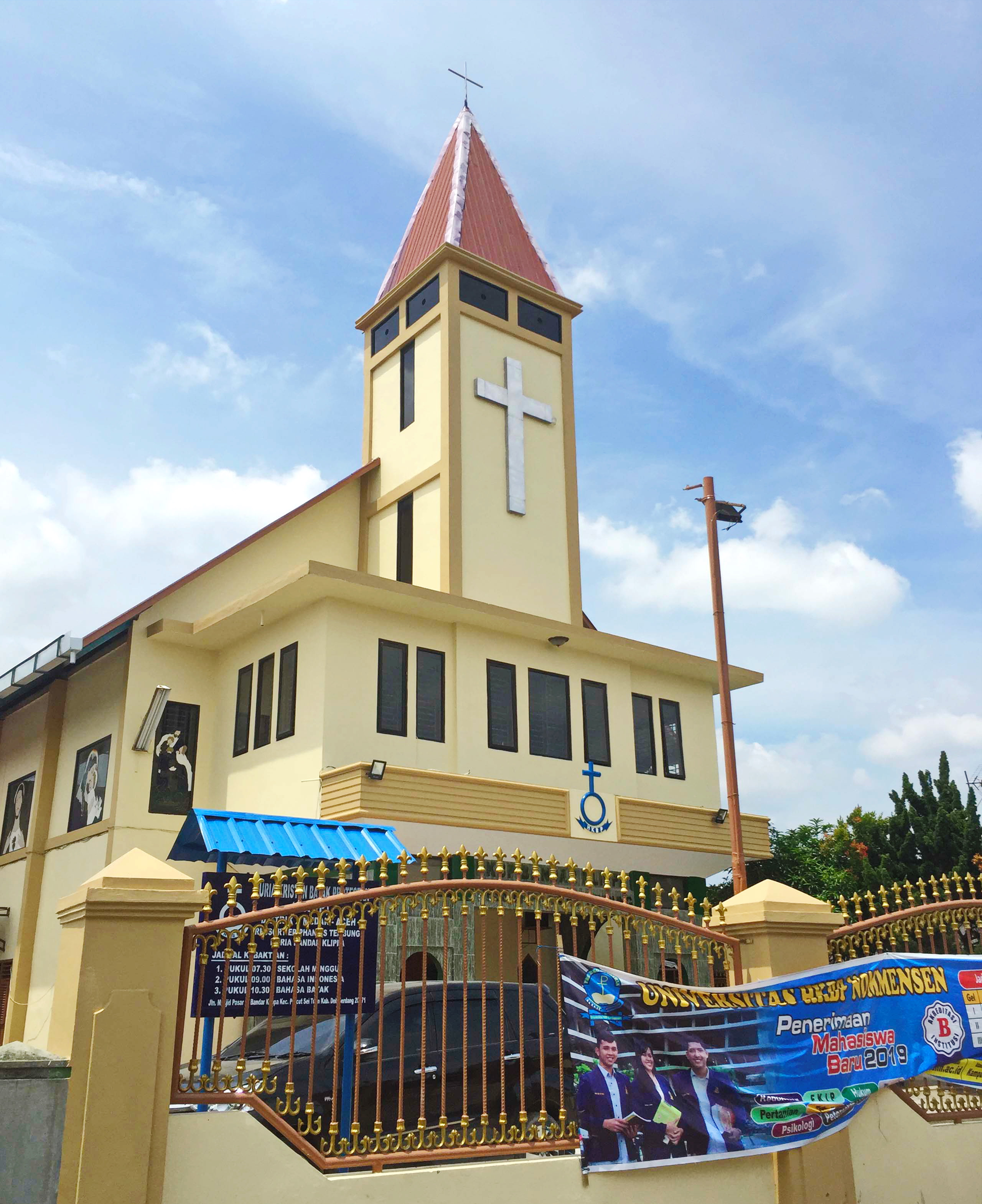 HKBP Bandar Klippa, Res. Epiphanias Tembung Church in Bandar Klippa, Percut Sei Tuan, Deli Serdang